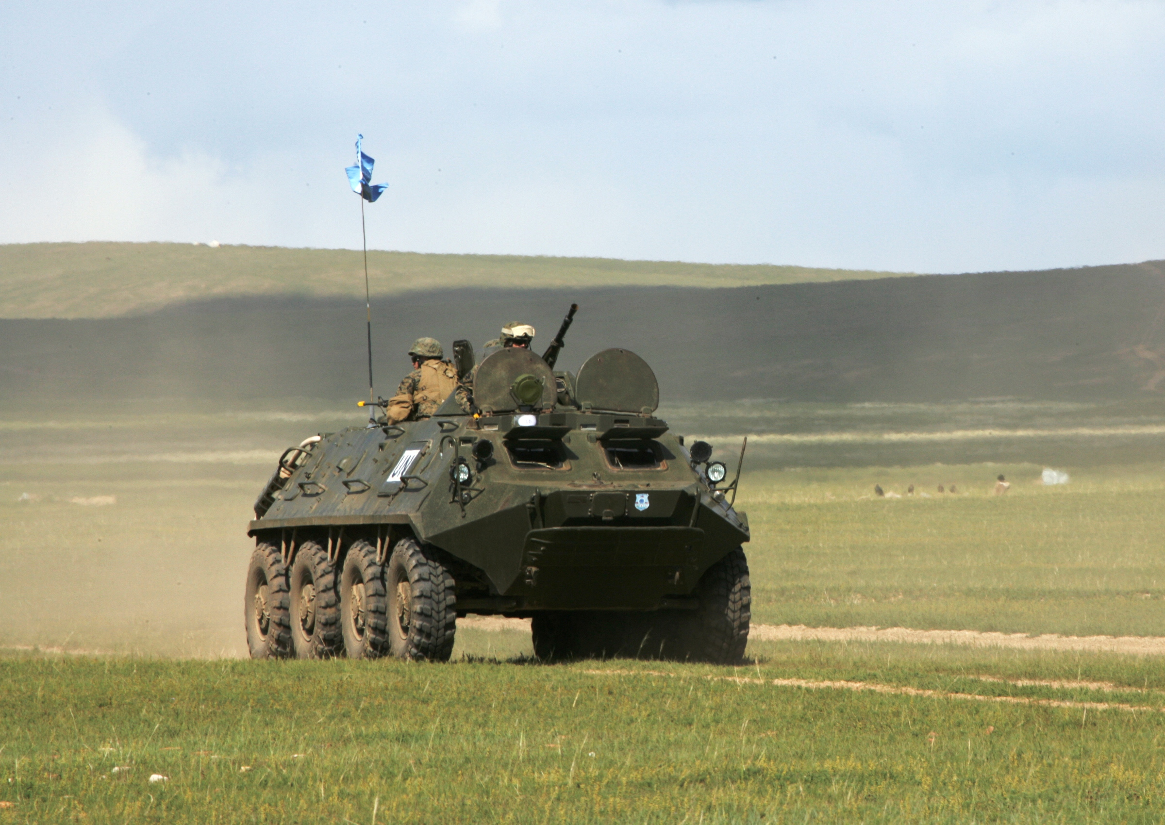 A BTR-60 during the exercise Khaan Quest 2009 at Five Hills Training Area, Mongolia, August 19, 2009.